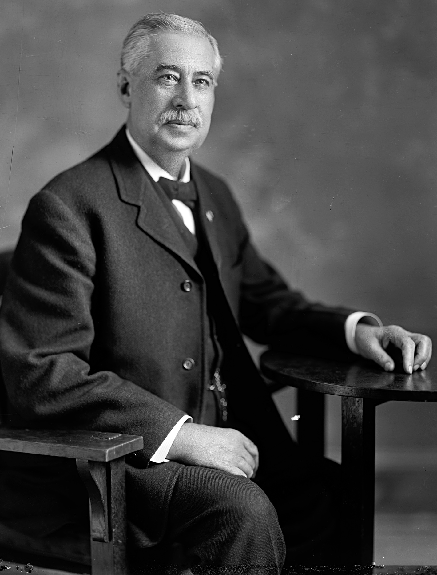 William J. Browning, US Representative from New Jersey